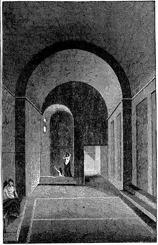 The women's bath in the Old Baths at Pompeii.